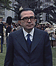 Arrival ceremony for Giulio Andreotti, President of the Council of Ministers of the Italian Republic, 04/17/1973 - welcome by Richard Nixon, US president